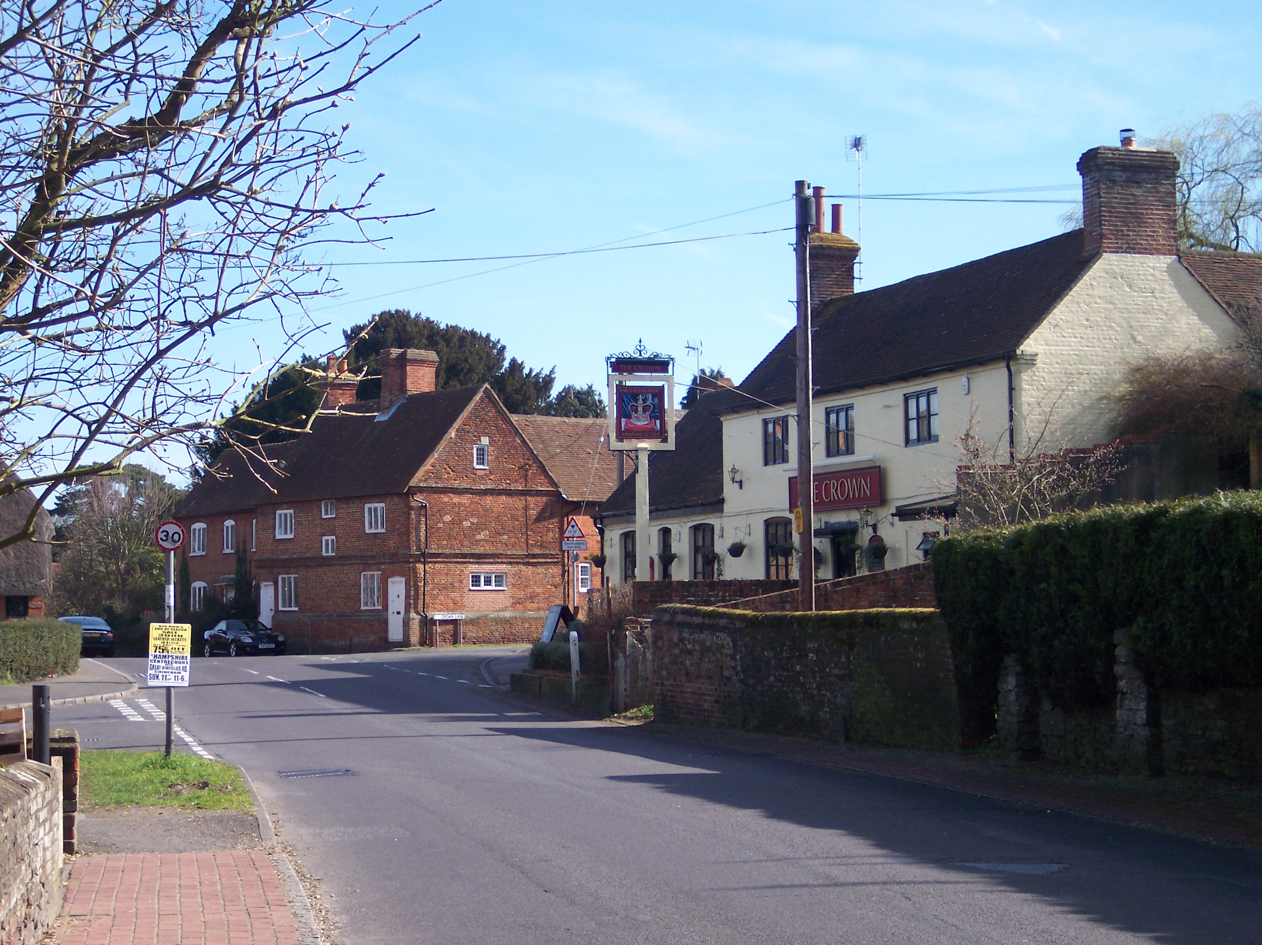 The crown Inn, The Street, Old Basing, Hampshire, England